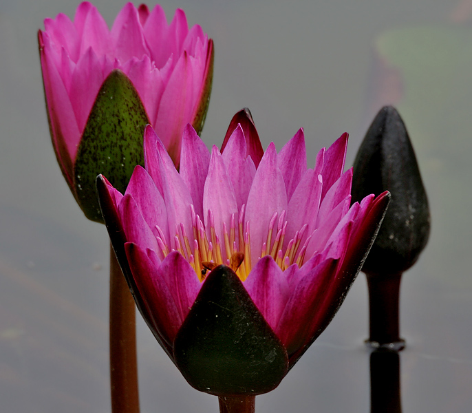 Indian Red Water Lily, Kanval, Koka, Lalakamal, Raktakamal, Allitamara, Allitamarai or Nyadale huvu Nymphaea nouchali in Hyderabad, India.